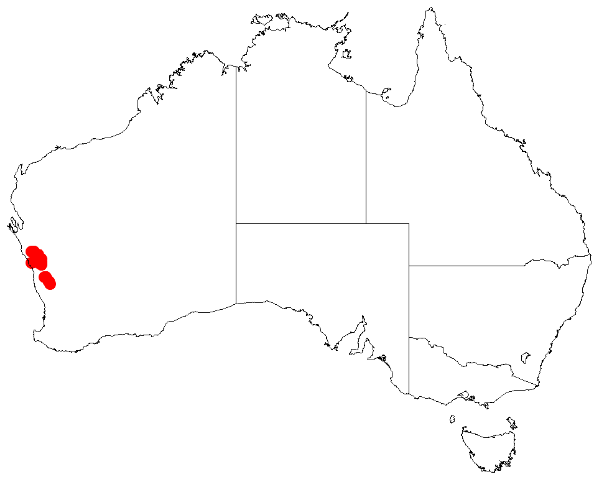 Scaevola globosa occurrence data downloaded from Australasian Virtual Herbarium 12 May 2019